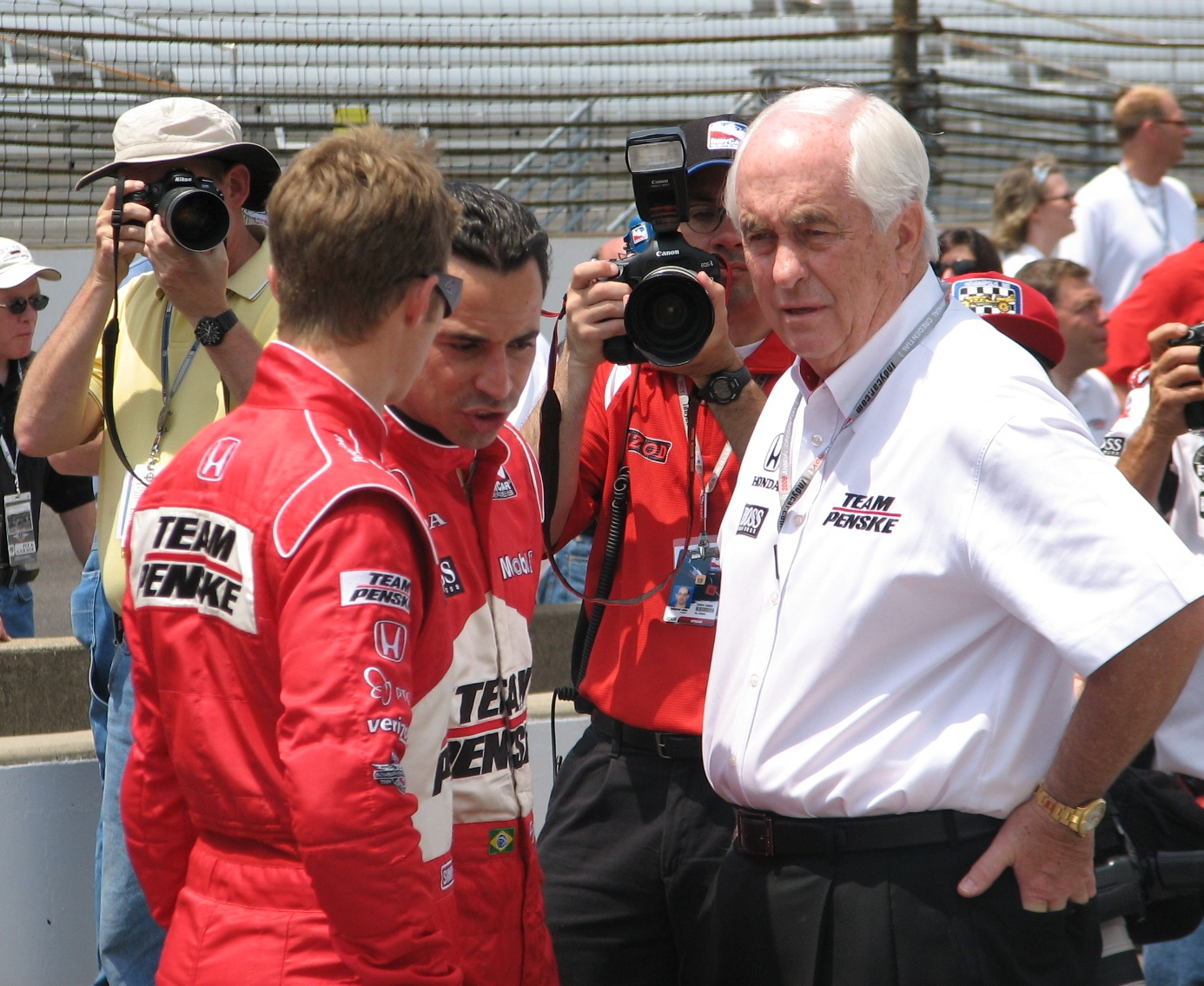 Ryan Briscoe (left), Hélio Castroneves (center), and Roger Penske (right) at the Indianapolis Motor Speedway for Miller Lite Carb day for the 2009 Indianapolis 500 on Friday, May 22, 2009.